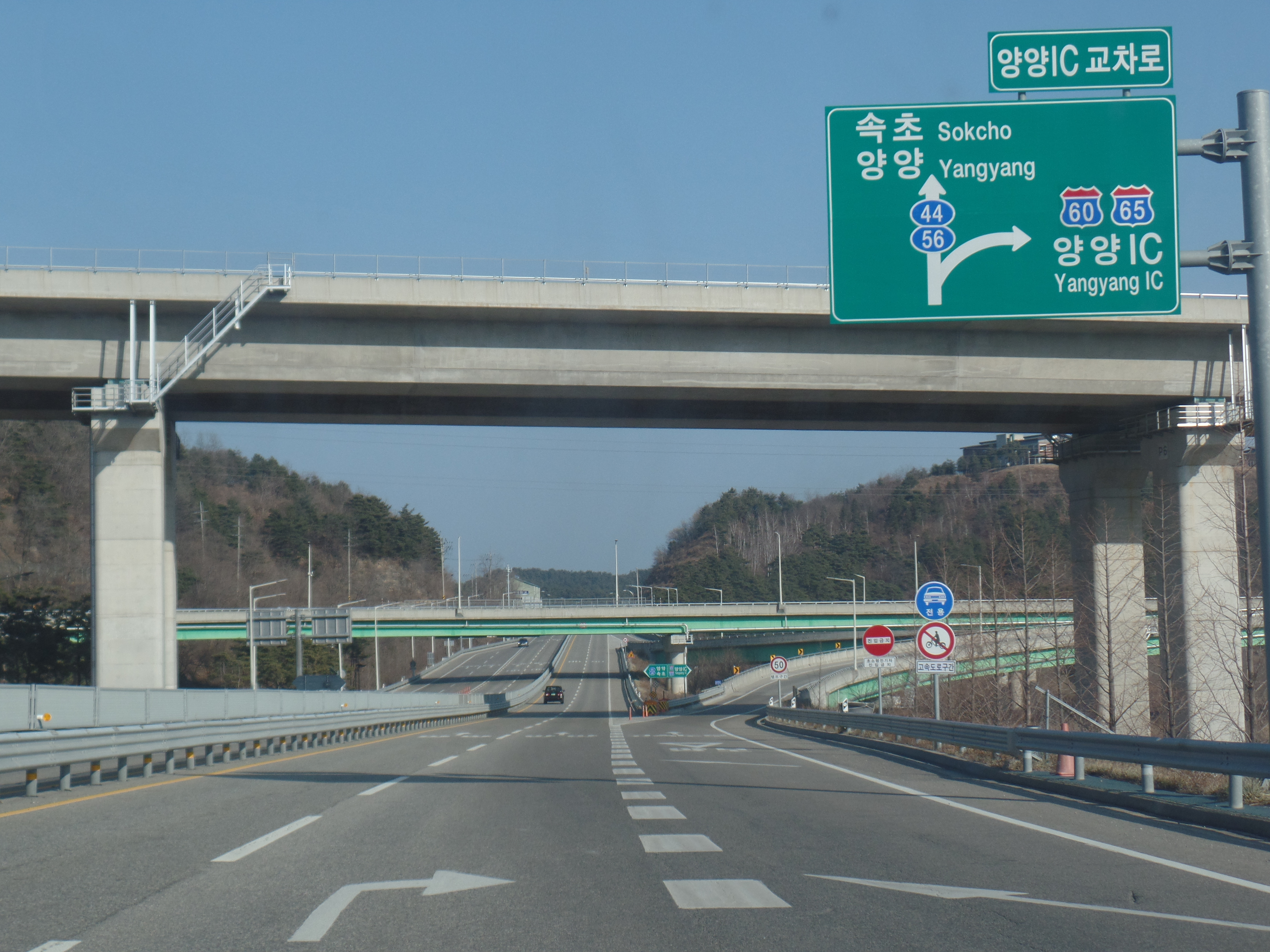 Republic of Korea National Route 44, 56 Yangyang IC(Seoul-Yangyang Expressway and Donghae Expressway Entrance)(Eastward Direction)